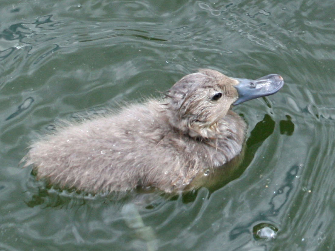 Freckled Duck (Stictonetta naevosa) chick at Sylvan Heights Waterfowl Park in Scotland Neck, North Carolina.